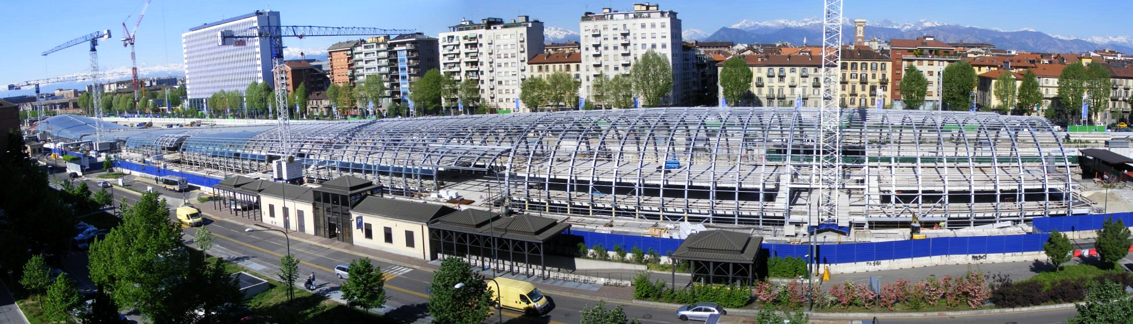 Porta Susa train station under construction during April 2011 (Turin, Italy)